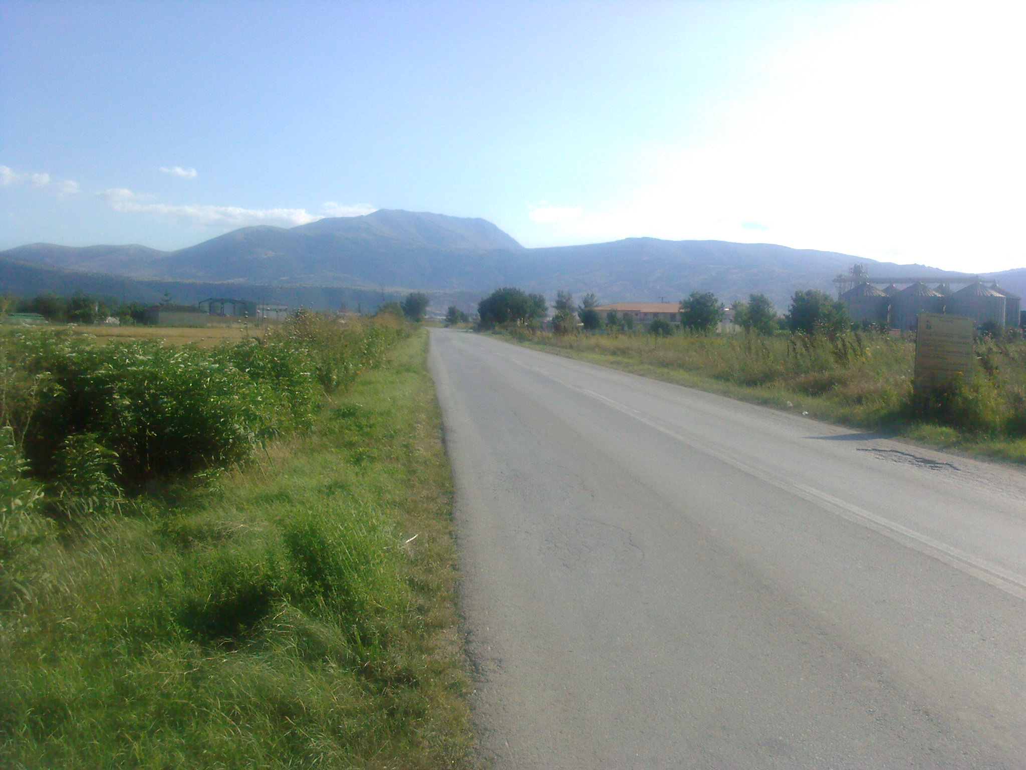 Mountain Moyriki /Murik/, Aegean Macedonia